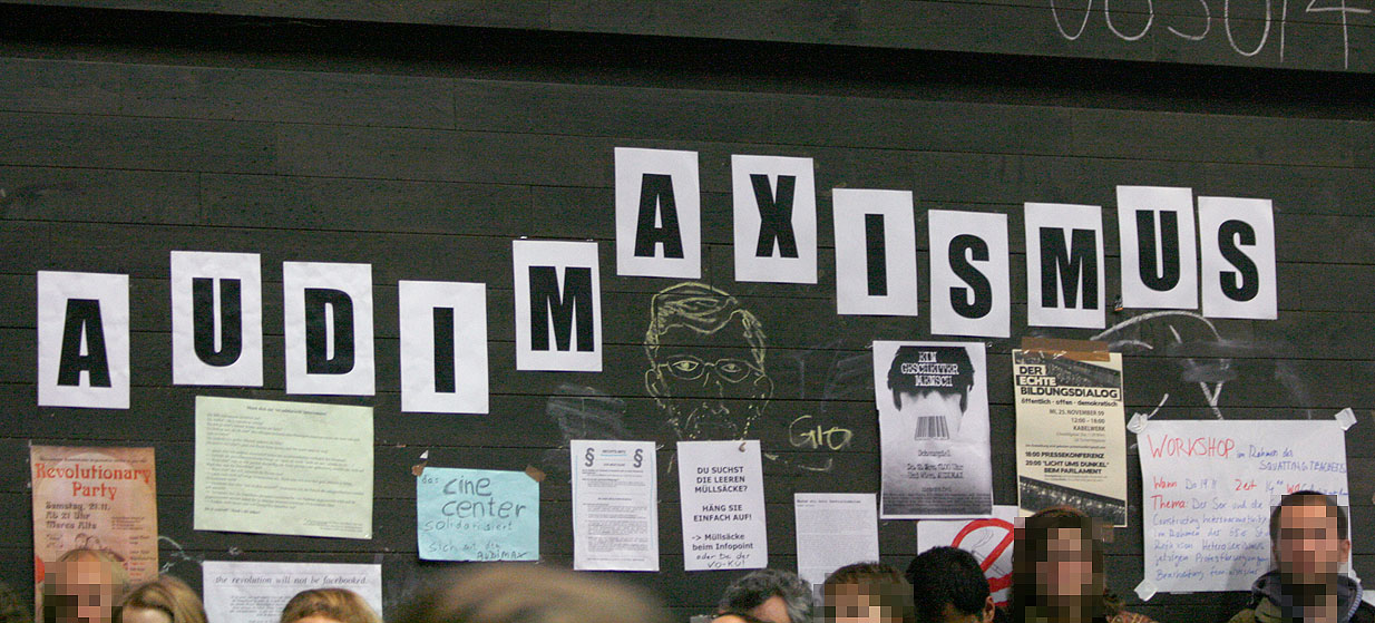 'Audimaxismus', the Austrian word of the year, on the wall of the Auditorium Maximum of the University of Vienna, that was occupied by protesting students in autumn 2009.